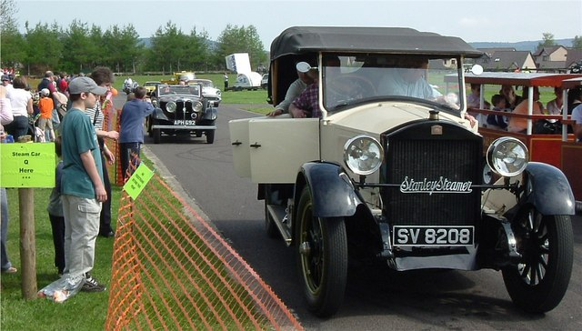 Vintage rally: Stanley Steam Car Grampian Transport Museum Stanley 740-1924-20hp-Tourer Aberdeenshire